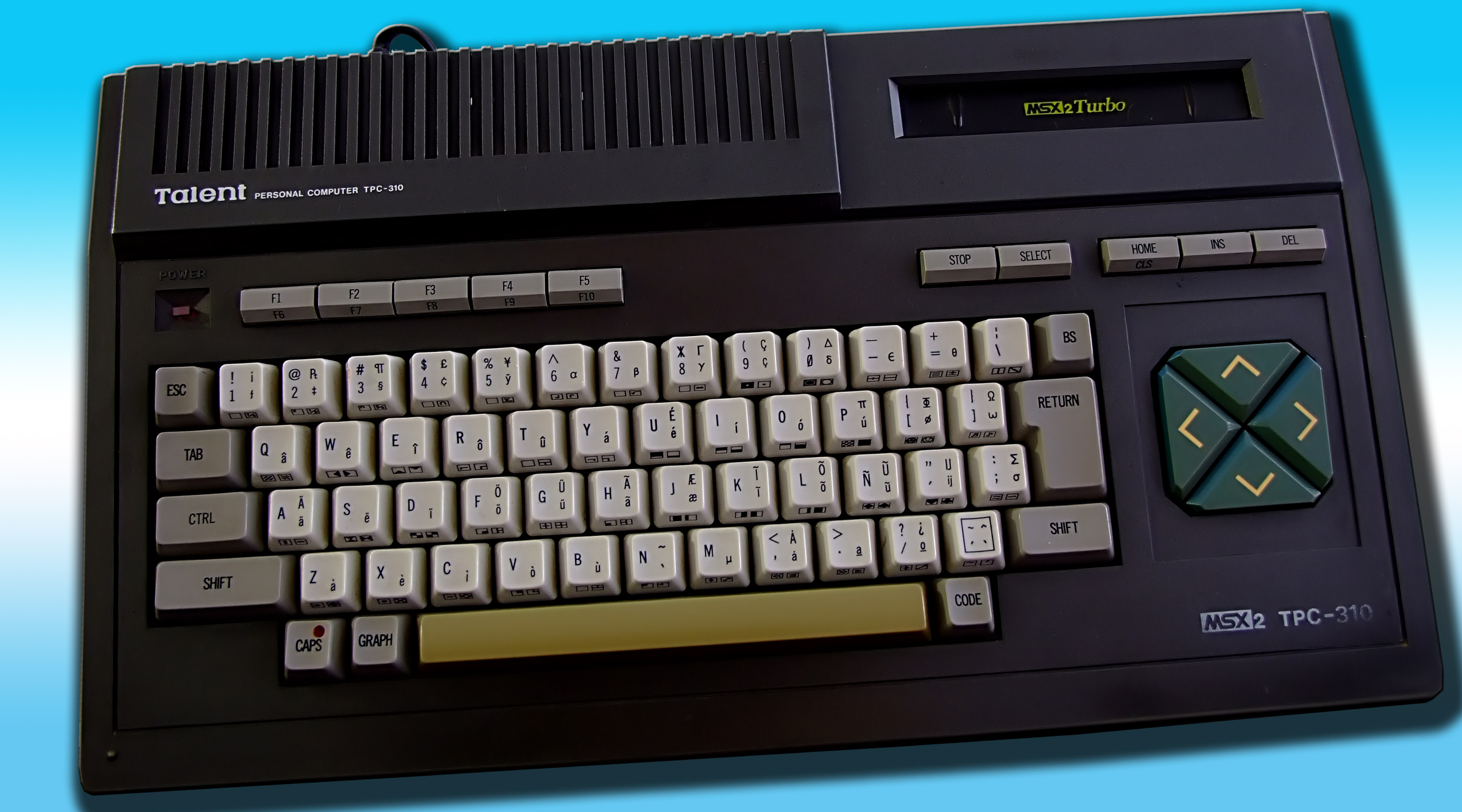 TALENT TPC-310 MSX2 computer, made in Argentina by Telematica (1988), based in Daewoo design, In Spain were sold as Dynata brand (White case). MSX Talent DPC-200 in other hand, the most popular computer in Argentina trough the '80 and early ´90.